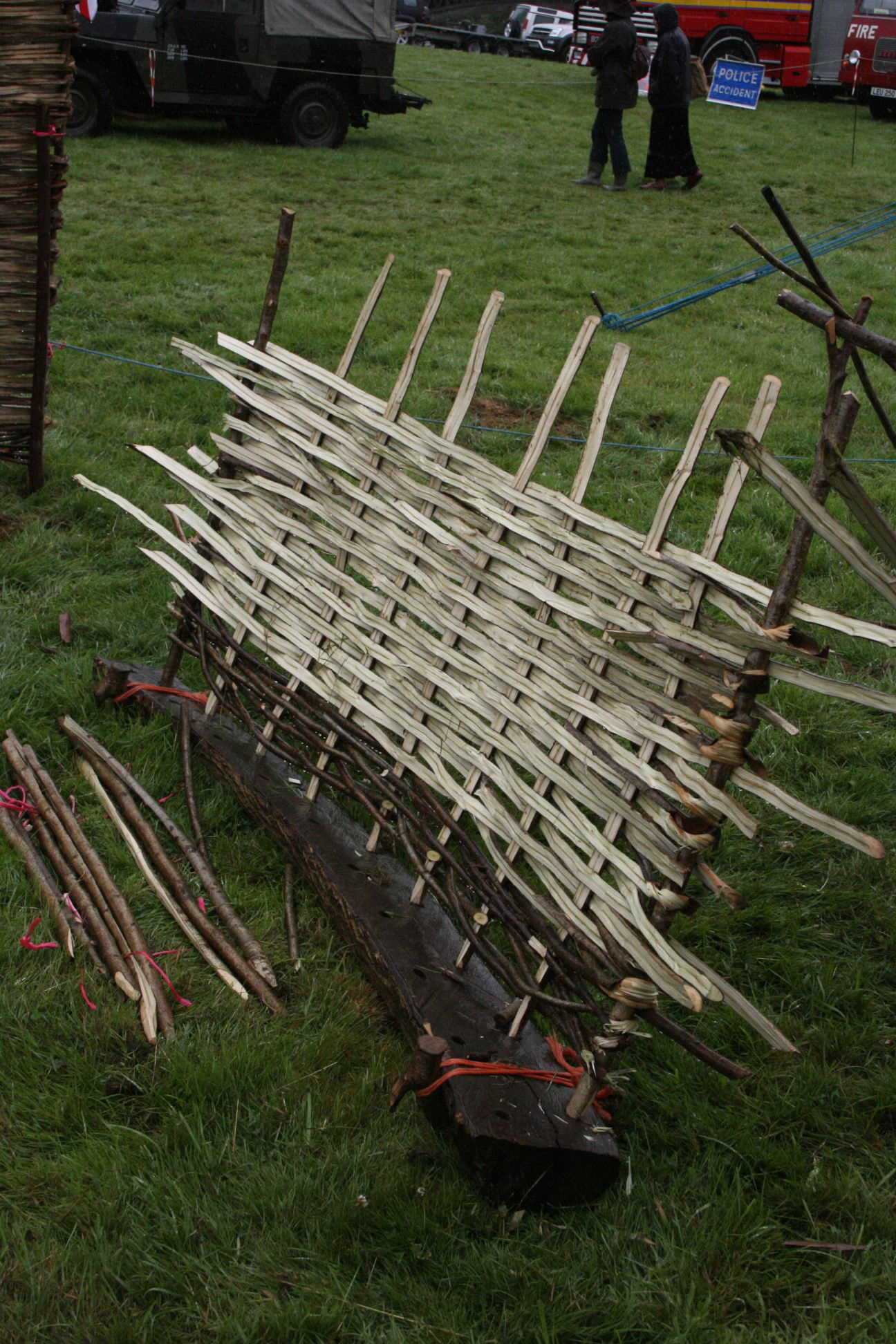 Wattle hurdle in the process of being made.